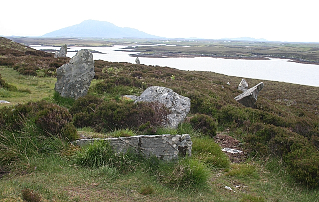 Pobull Fhinn. Some of the two dozen surviving stones of the circle known as the People of Fingal above Loch Langais.